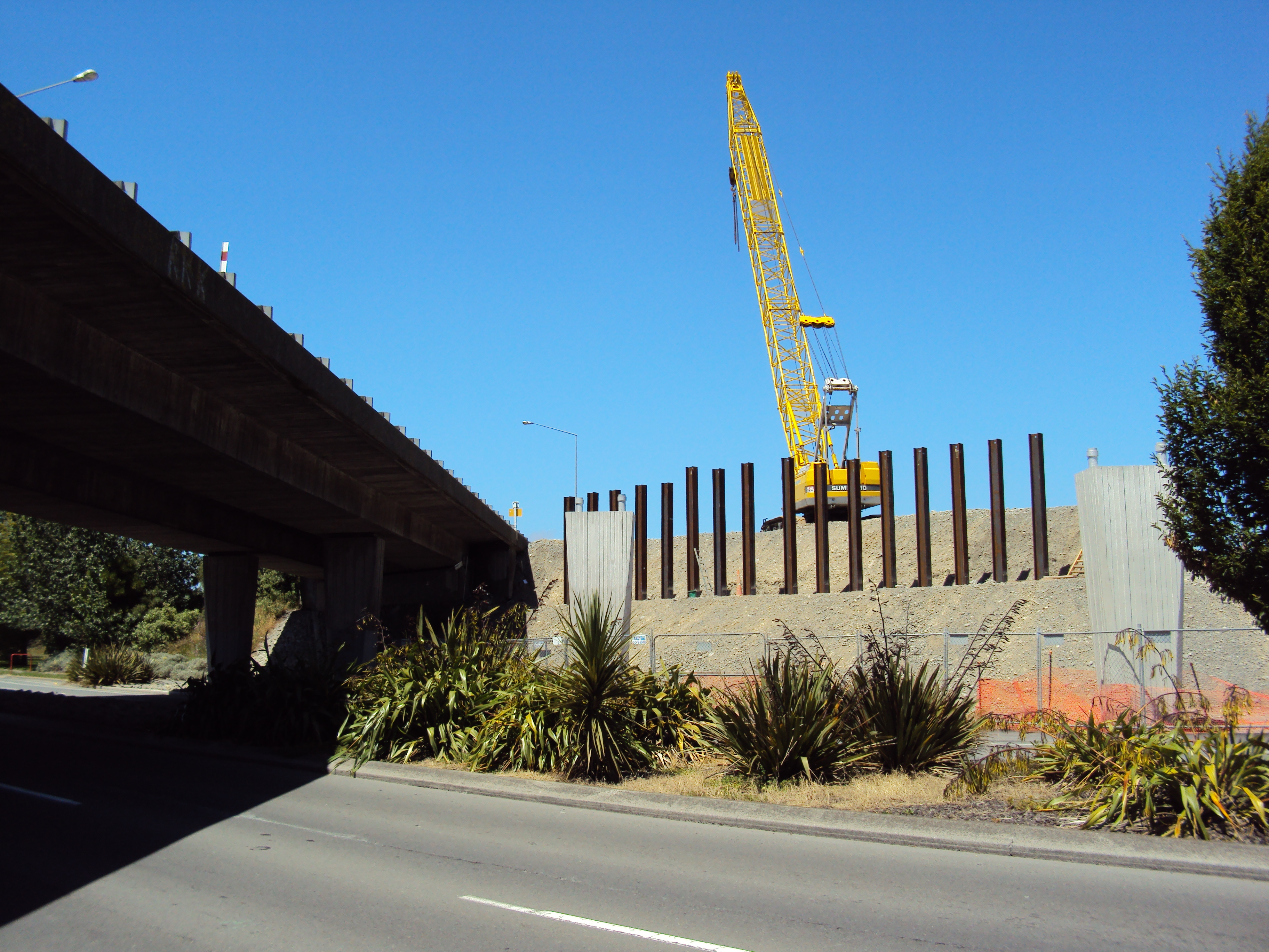 View of construction of the Lincoln Road bridge duplication on the Christchurch Southern Motorway. The 1981 two-lane bridge is to the left.